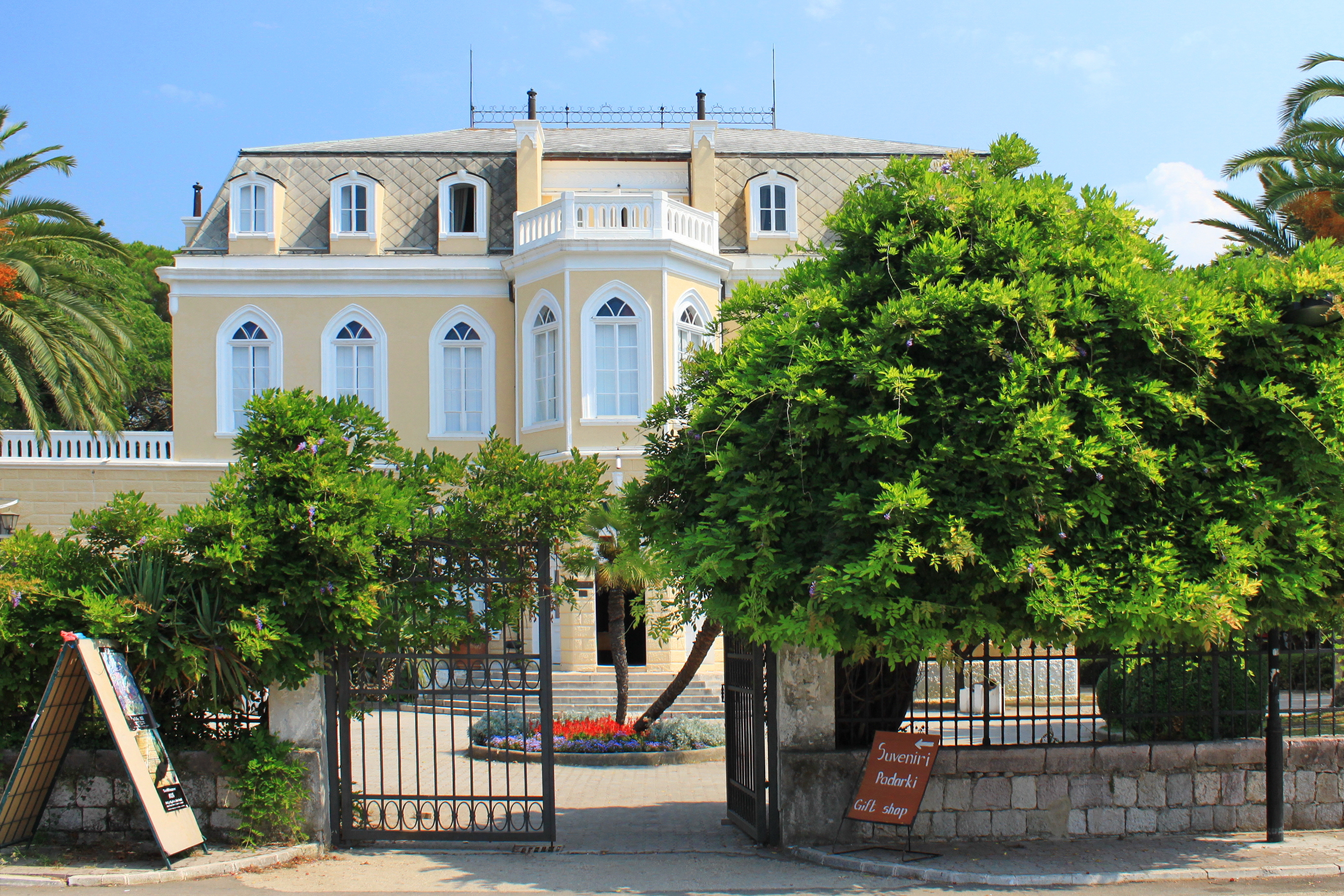 King Nicola's Palace. Bar, Montenegro.